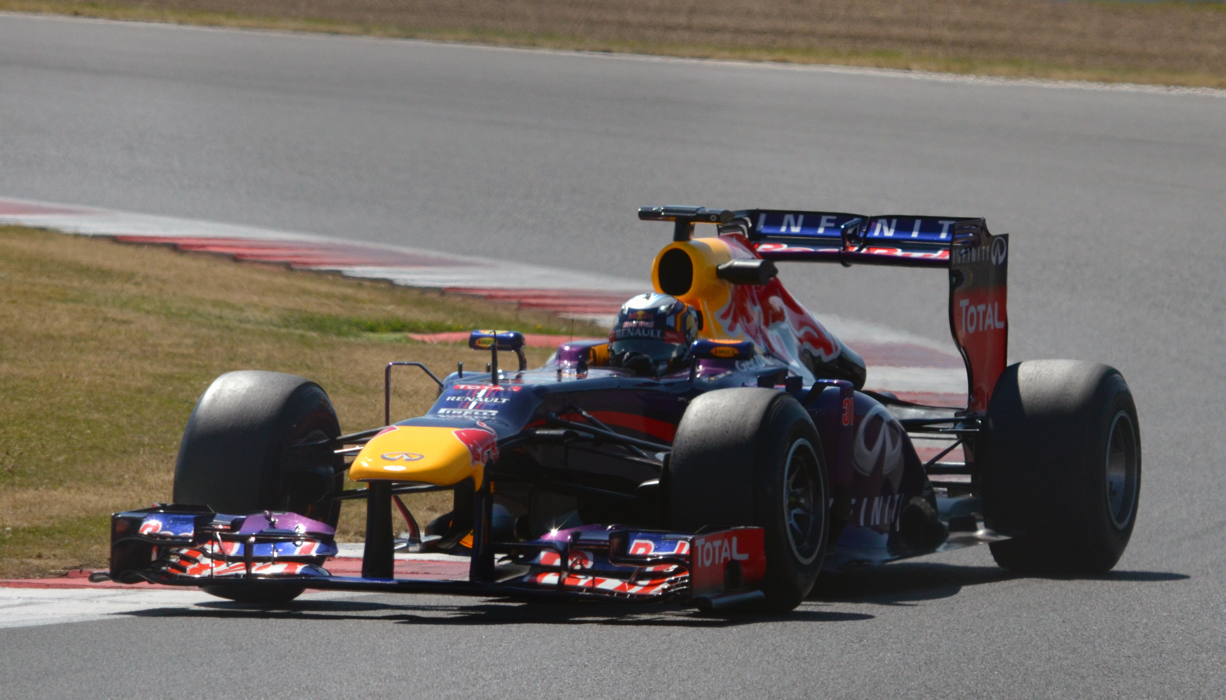 Carlos Sainz, Jr driving the Red Bull RB9 at the Young Drivers' Test at Silverstone.